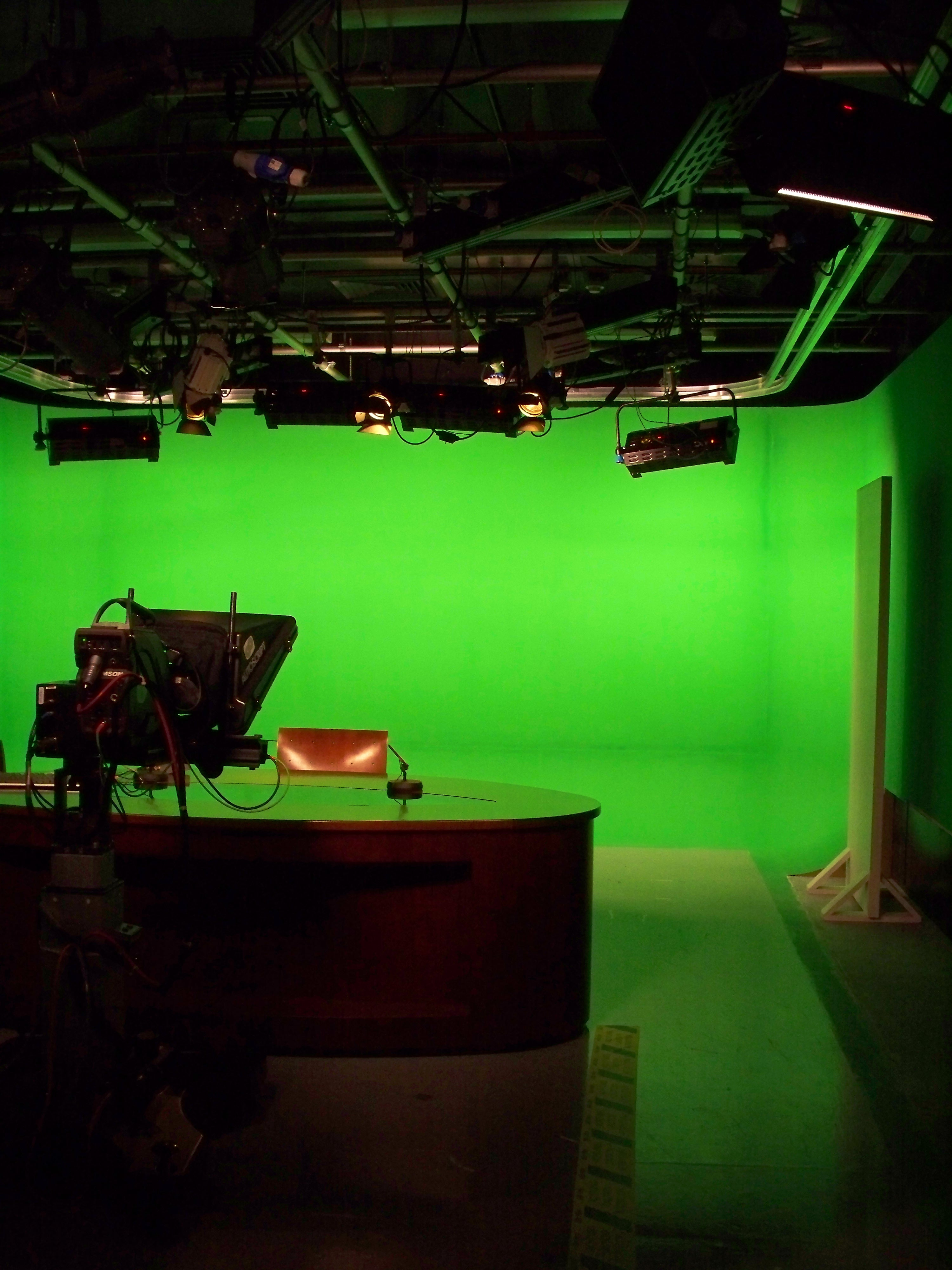 Braodcast Studio